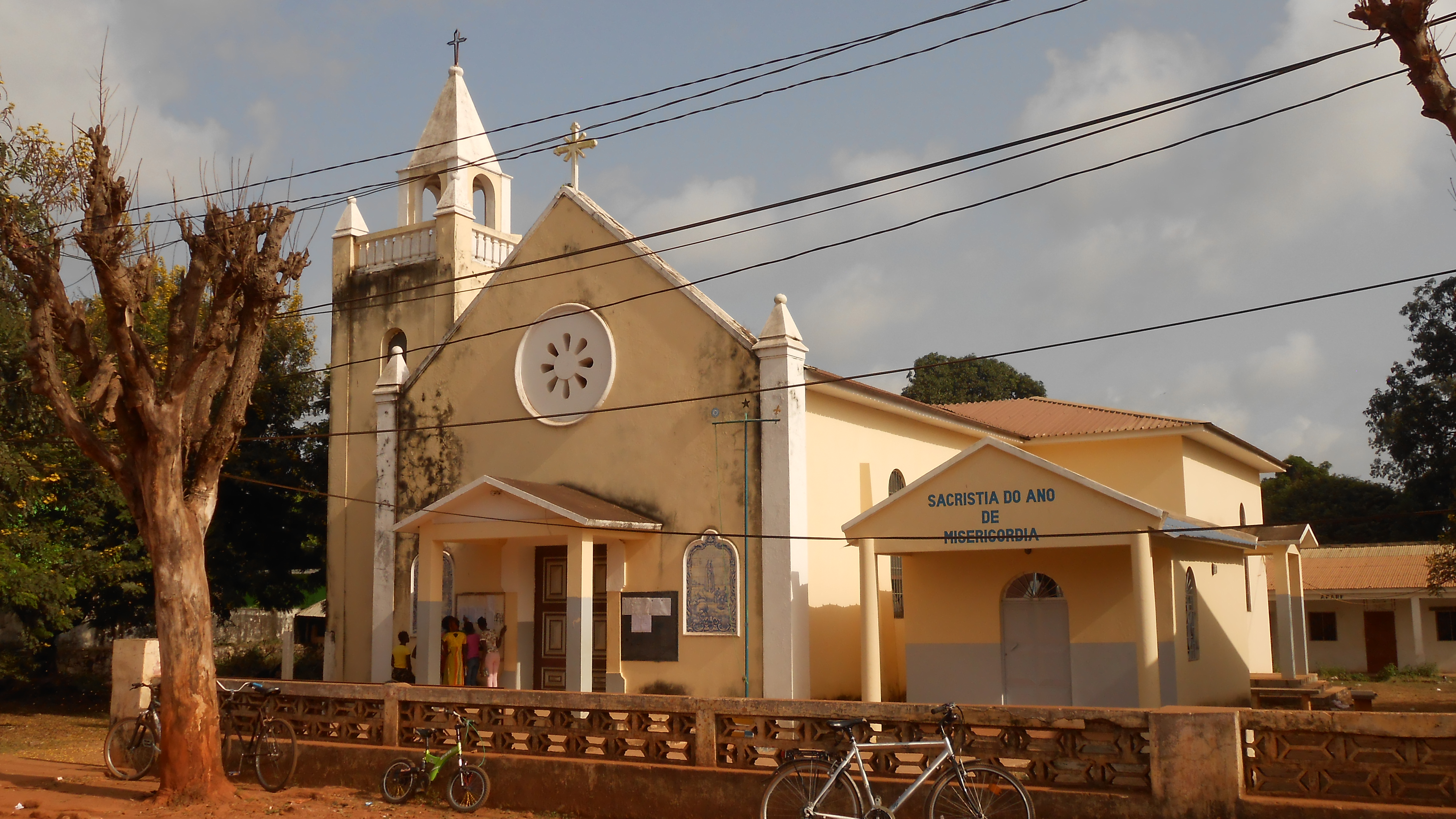 The roman-catholic church of Canchungo, built by the portuguese in colonial times. Being located in a region where islam and ethnic religions are predominant, the church still plays a role especially in education and social life in Canchungo.